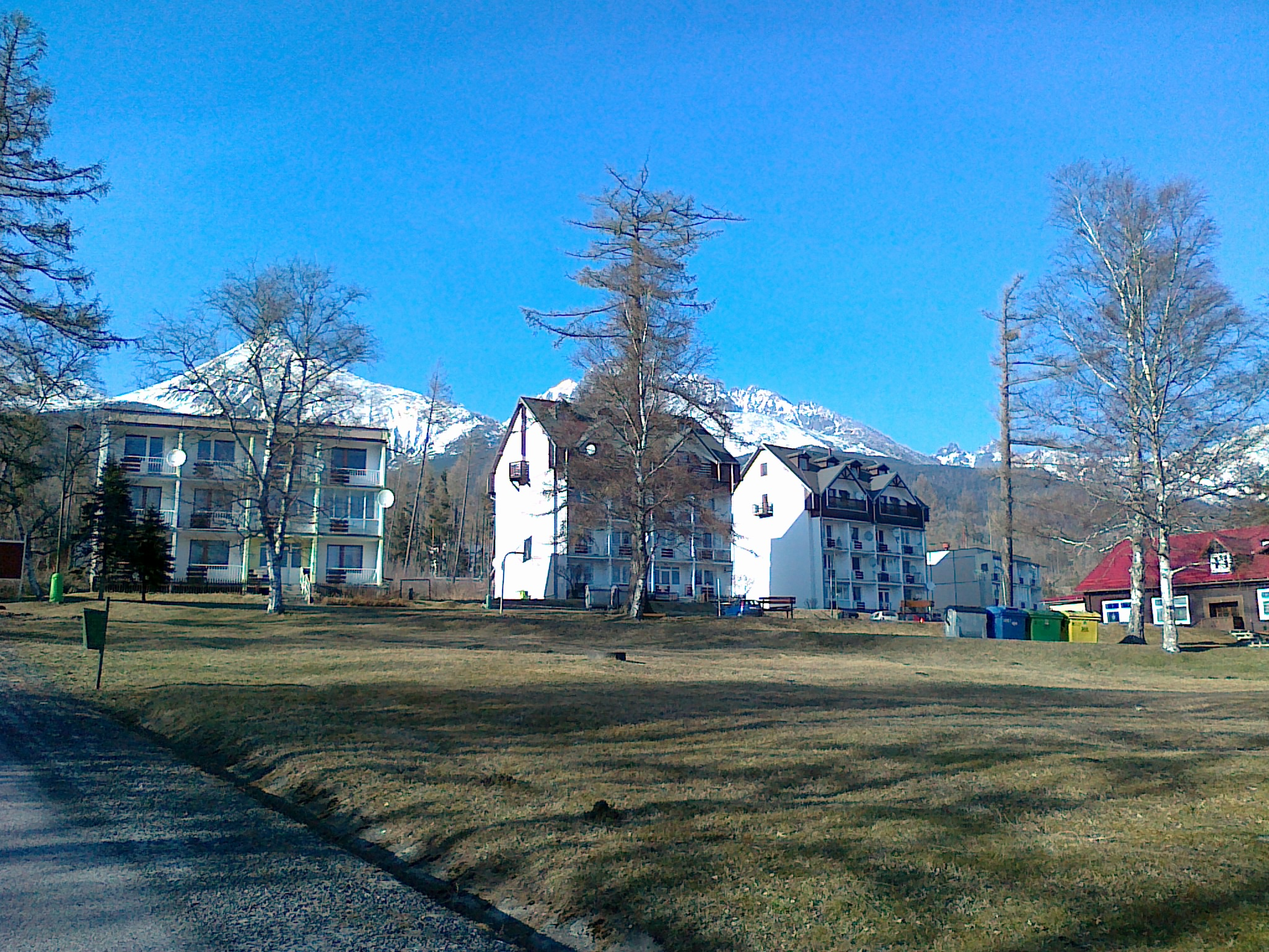 Vyšné Hágy